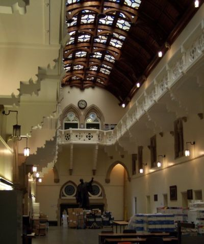 A photograph of the interior of the Main Hall of the Old College of Aberystwyth University.